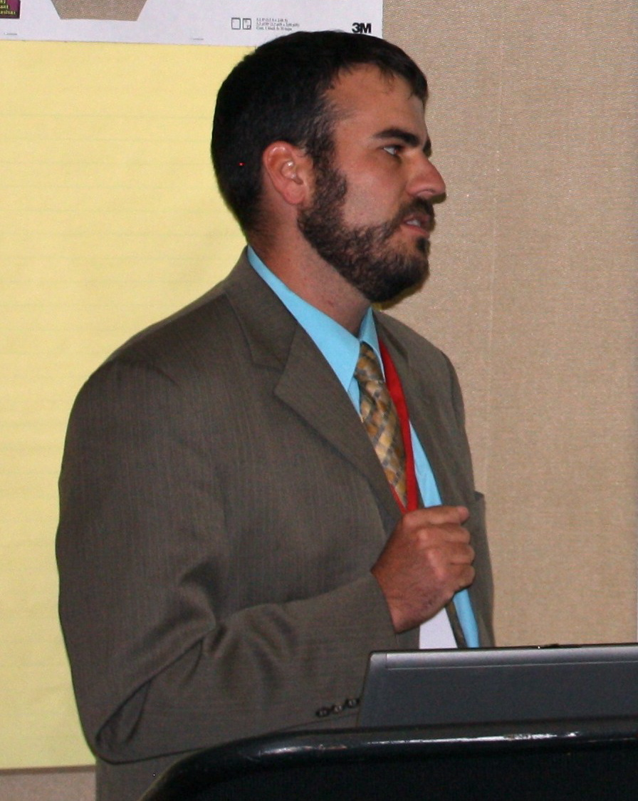 (Official USTR Photo) This photograph is being made available by USTR and is, because it is a work of the US Federal Government, in the public domain from a copyright perspective, so while restrictions such as personality or privacy rights may apply, in general, manipulations are allowed that don't in any way suggest approval or endorsement of the Ambassador, USTR or the United States Government.